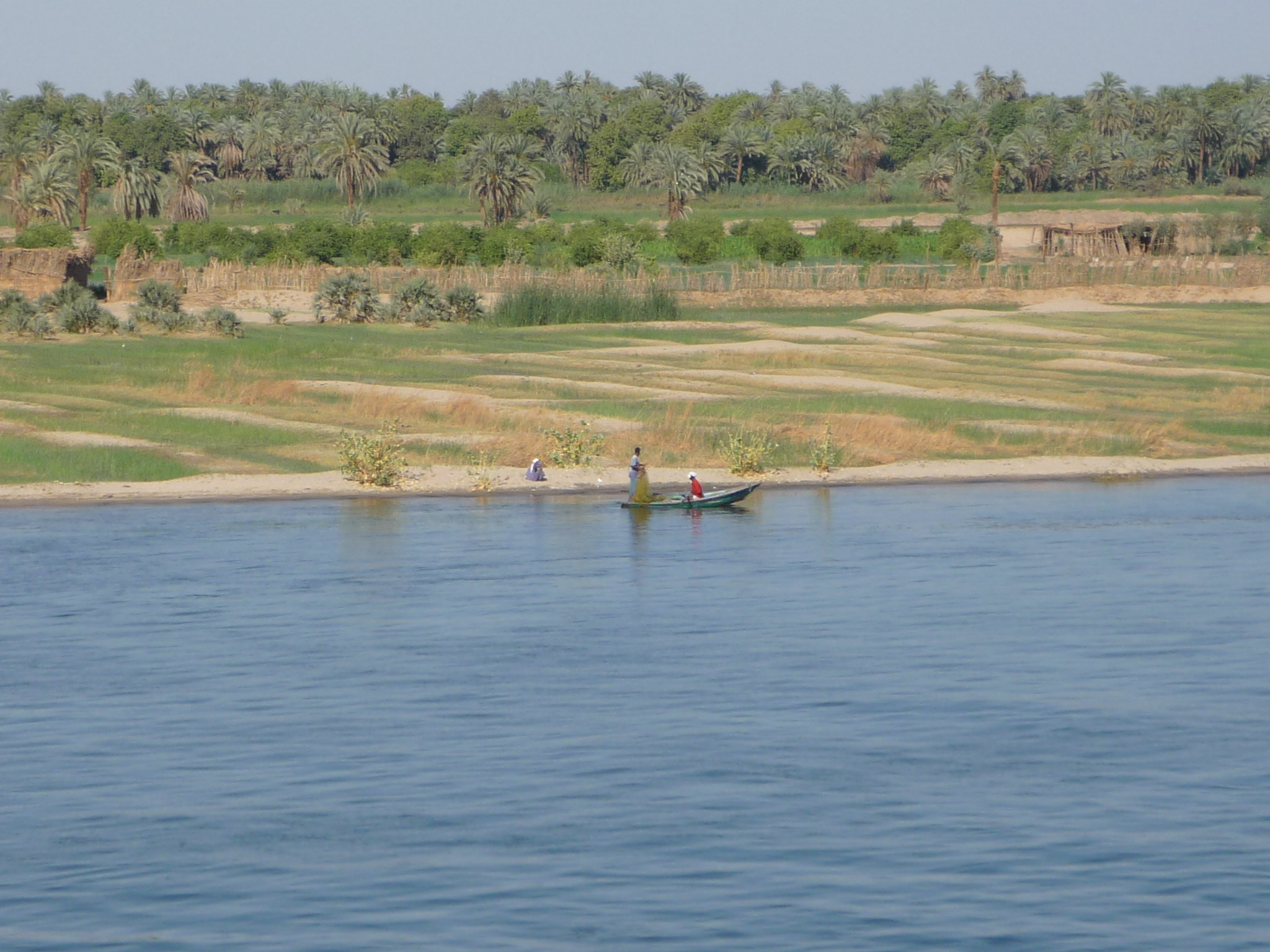 Fishermen and reed fields near Kom Ombo, Egypt